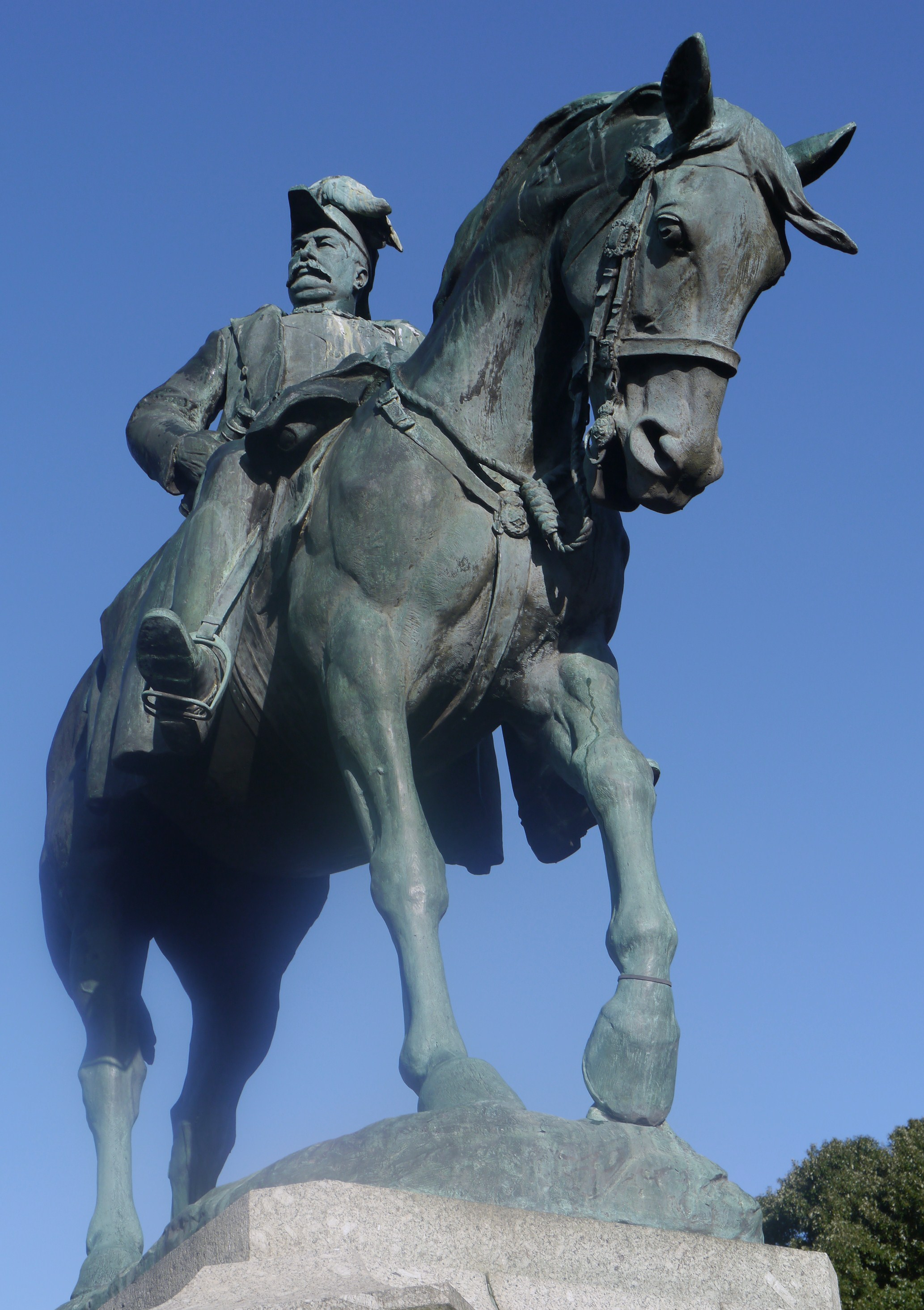 Buller Statue in Exeter